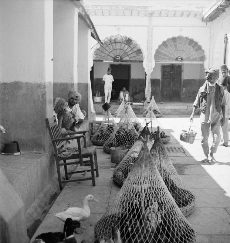 Hyderabad City The bird market in the bazaar quarter of the city